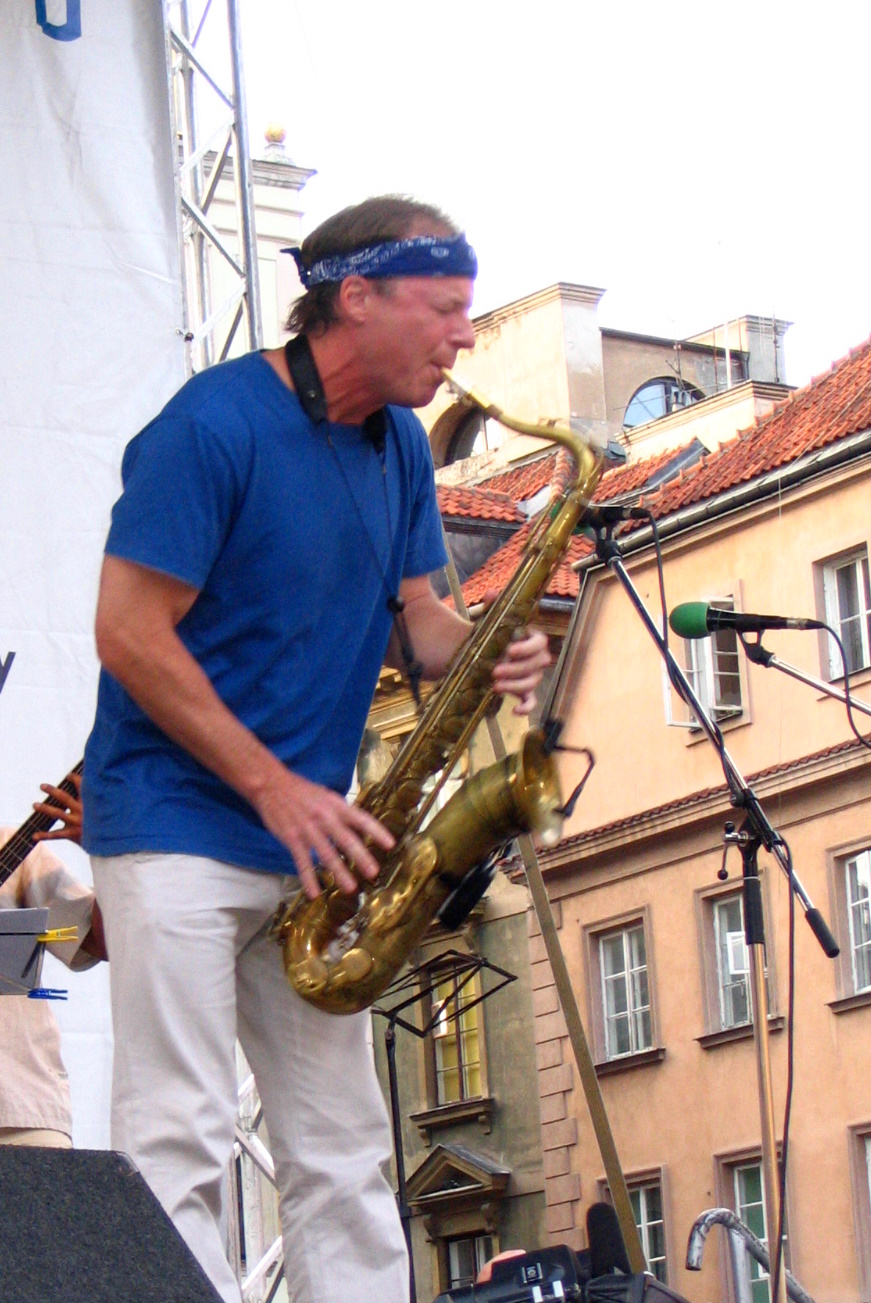 Bill Evans (saxophonist) in concert with Polish jazz-rock band Walk Away. Old Town Square, Warsaw, Poland